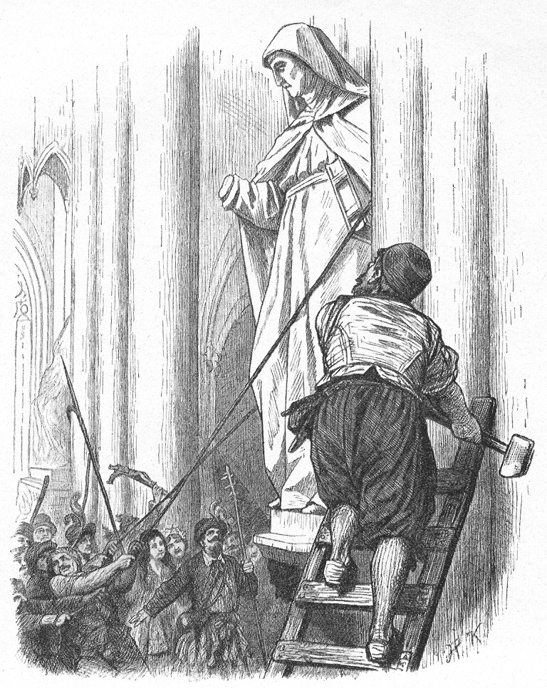 Image of the Dutch Reformation iconoclasm (Beeldenstorm)